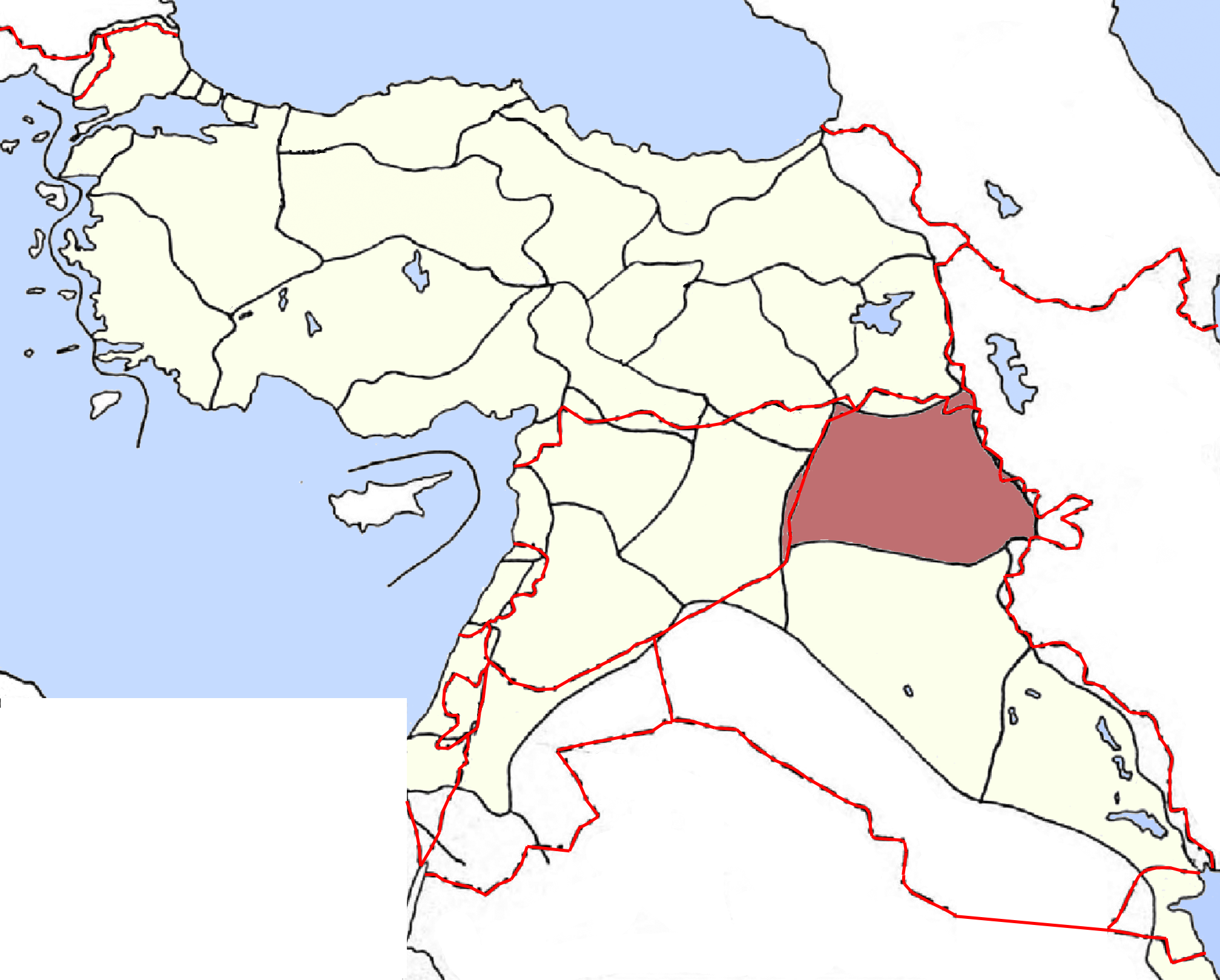 XY Vilayet, Ottoman Empire (1914). Source: Crime of Numbers: The Role of Statistics in the Armenian Question (1878-1918) at Google Books By Fuat Dündar